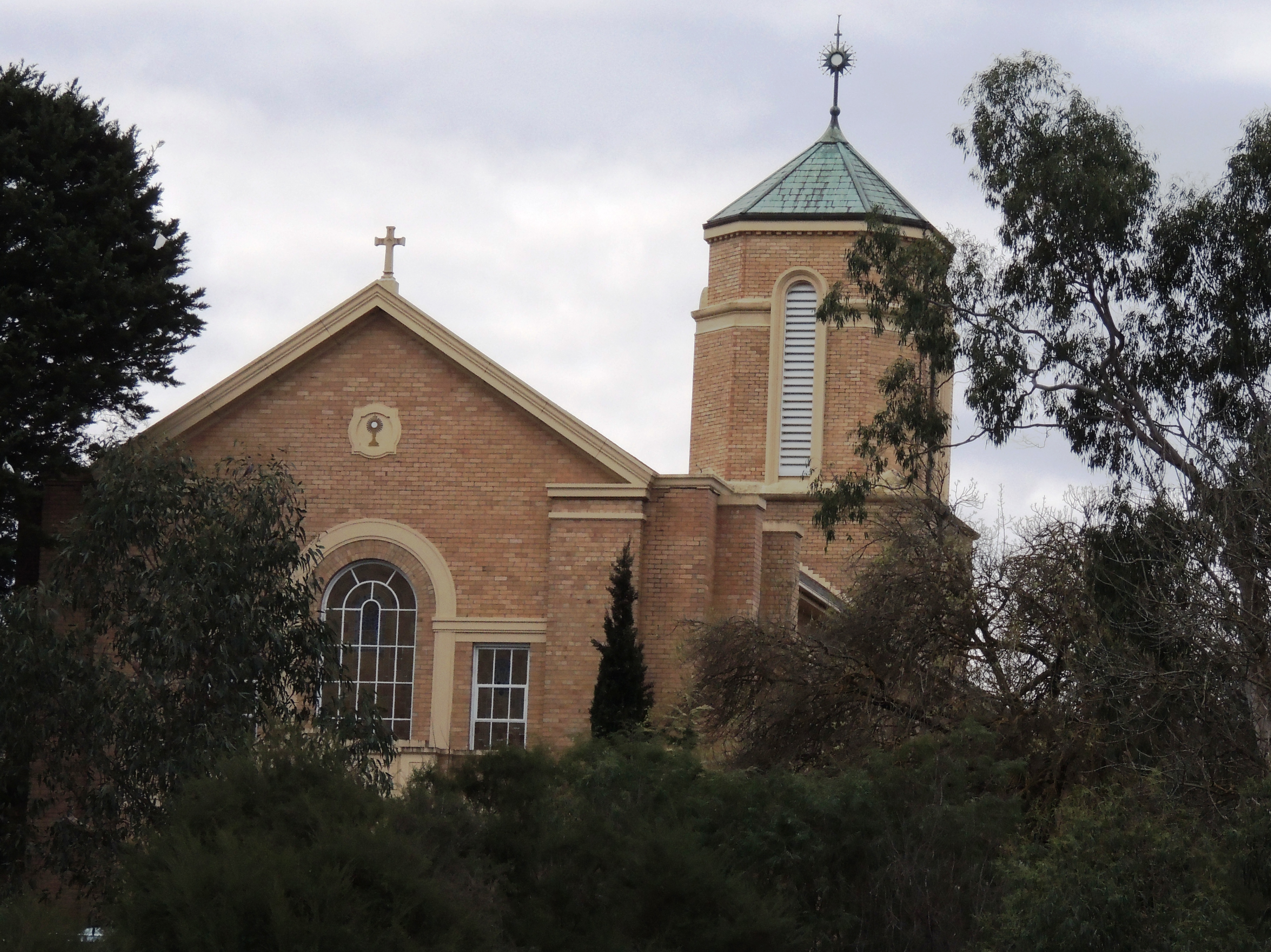 Odyssey house in Lower Plenty, City of Banyule (7548433012).jpg